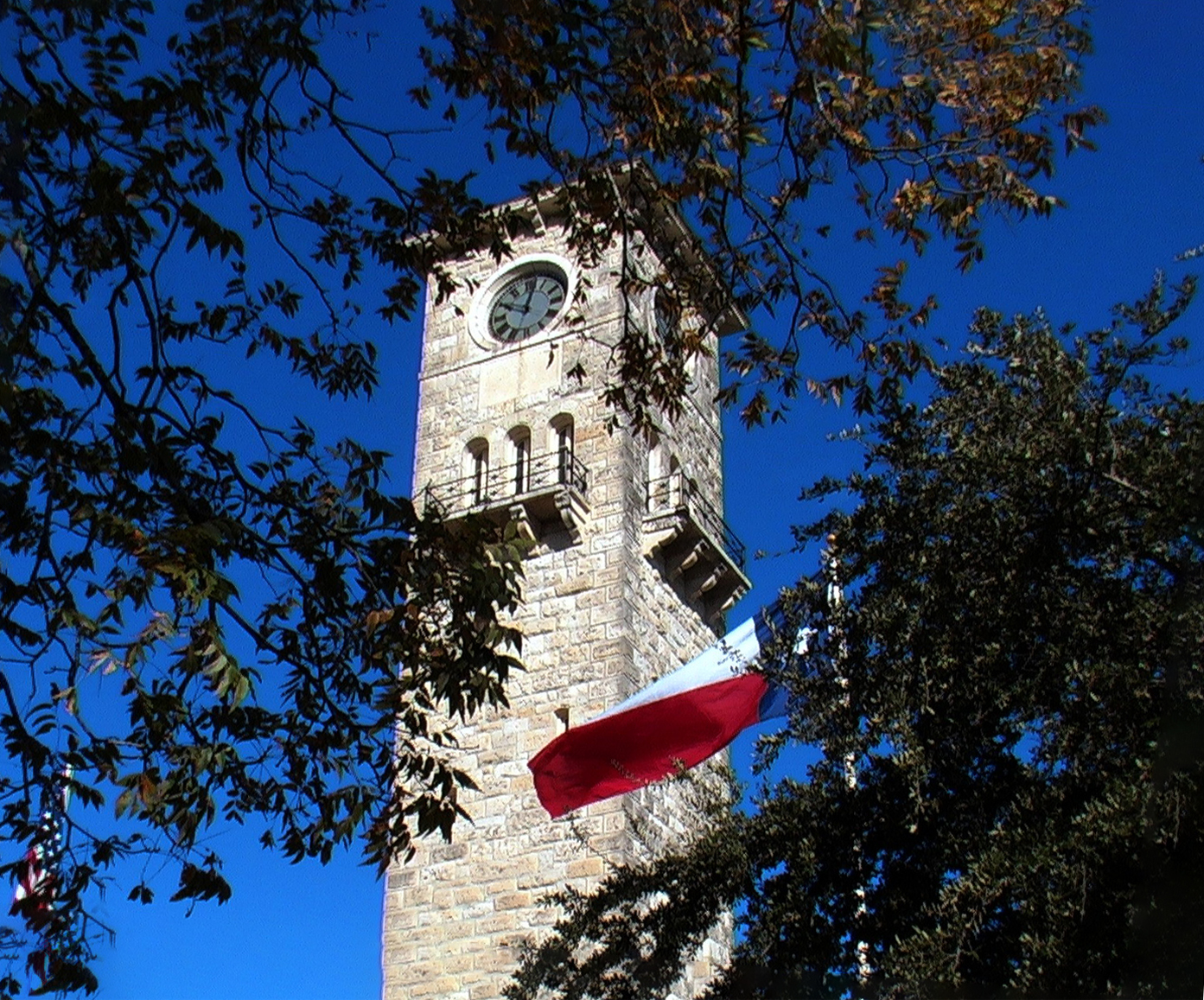 Clock tower built in 1876 inside the Quadrangle on Fort Sam Houston, Texas (October 2006). Photo by Peter Rimar.